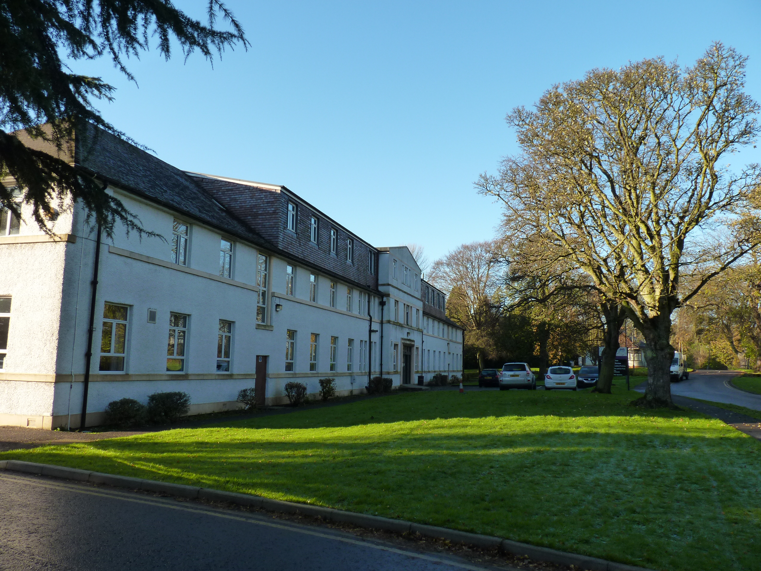 The admin block